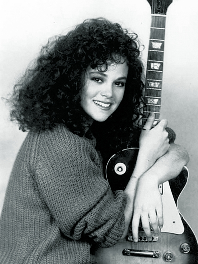 press photo of Rebecca Schaeffer for My Sister Sam in the 1980s